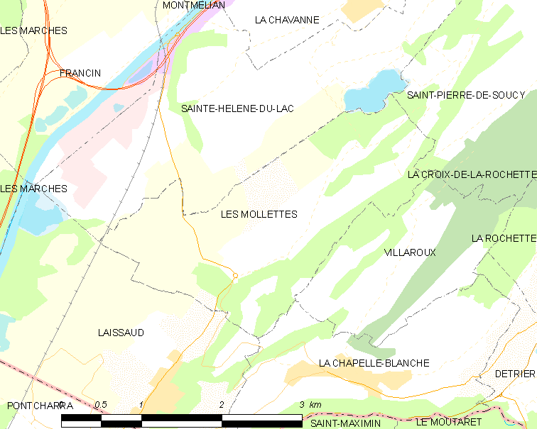 Map of French municipality